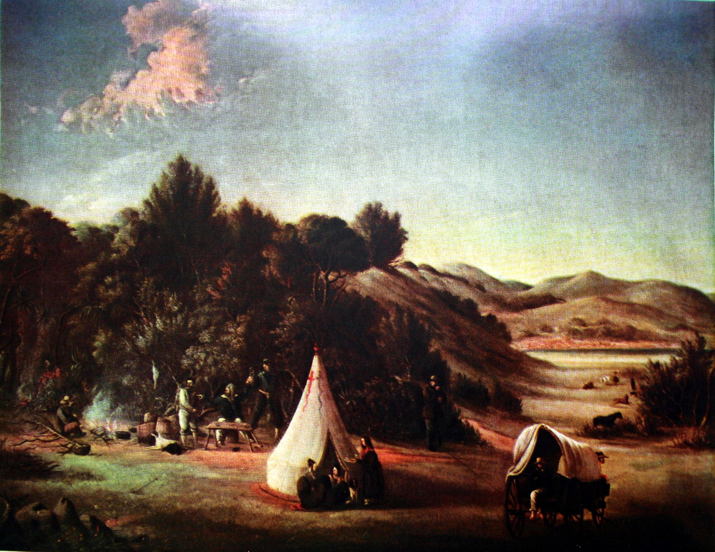 "1820 Settlers Camped near the Great Fish River", painting by Frederick Timpson I'Ons (1802-1887)